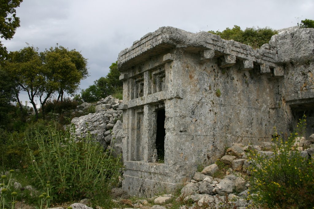 An image of a tomb at the Lycian site of Phellus.